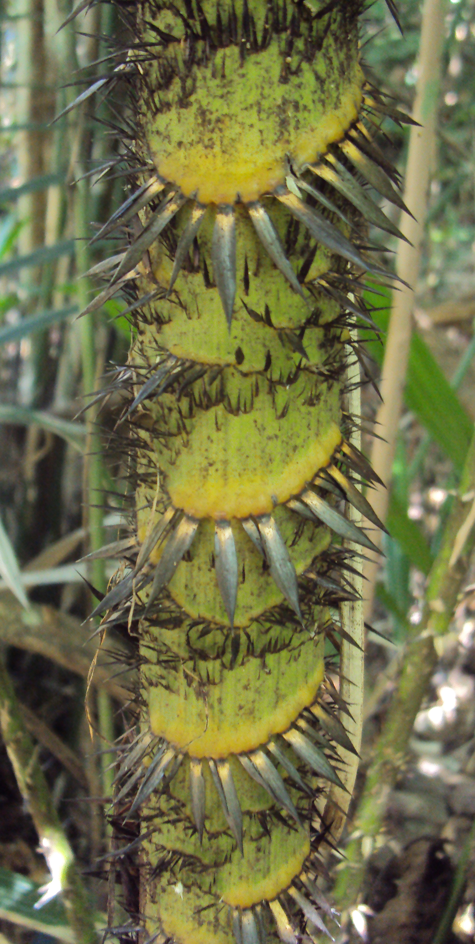 Calamus rotang